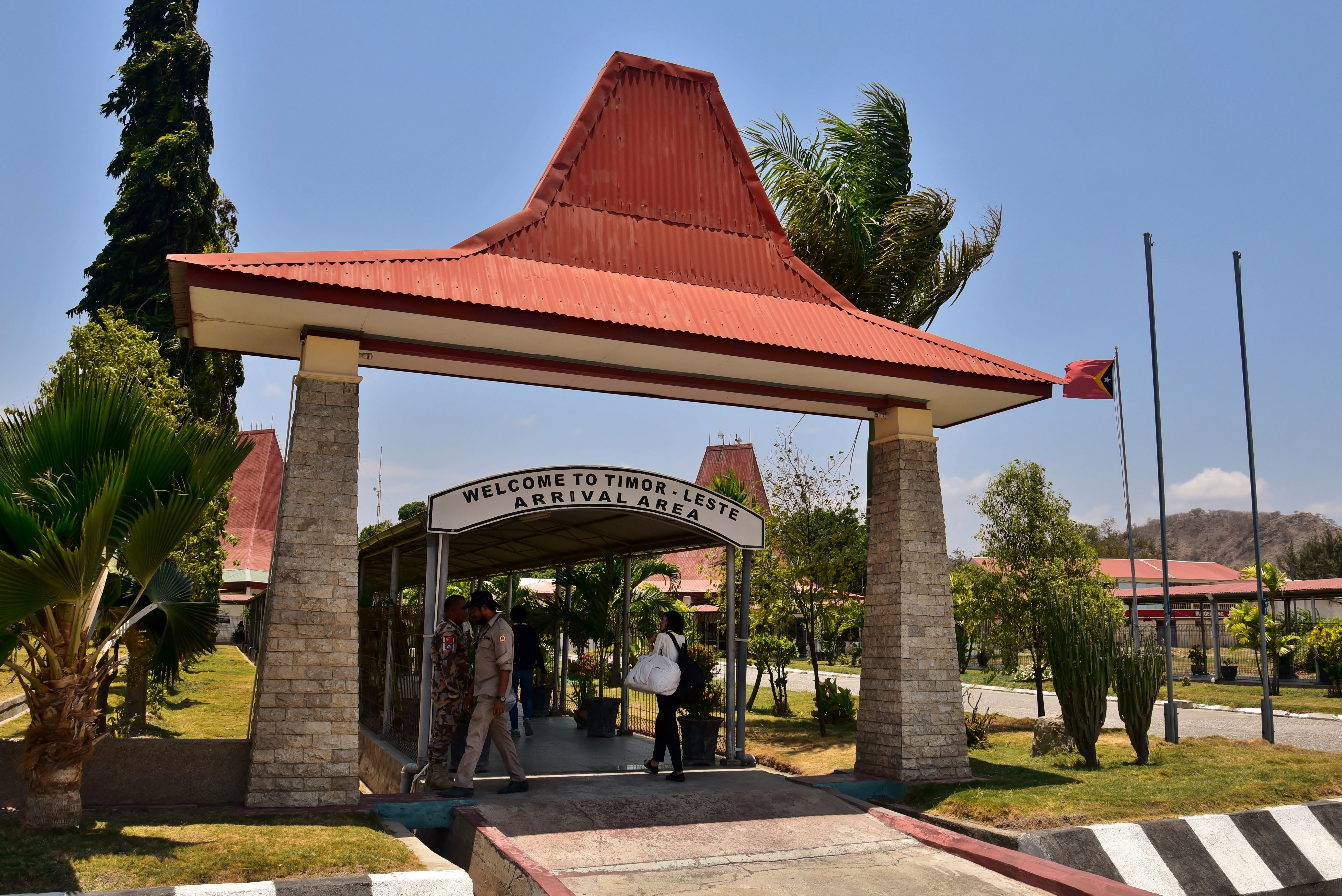 View of the terminal at Presidente Nicolau Lobato International Airport, Dili, East Timor